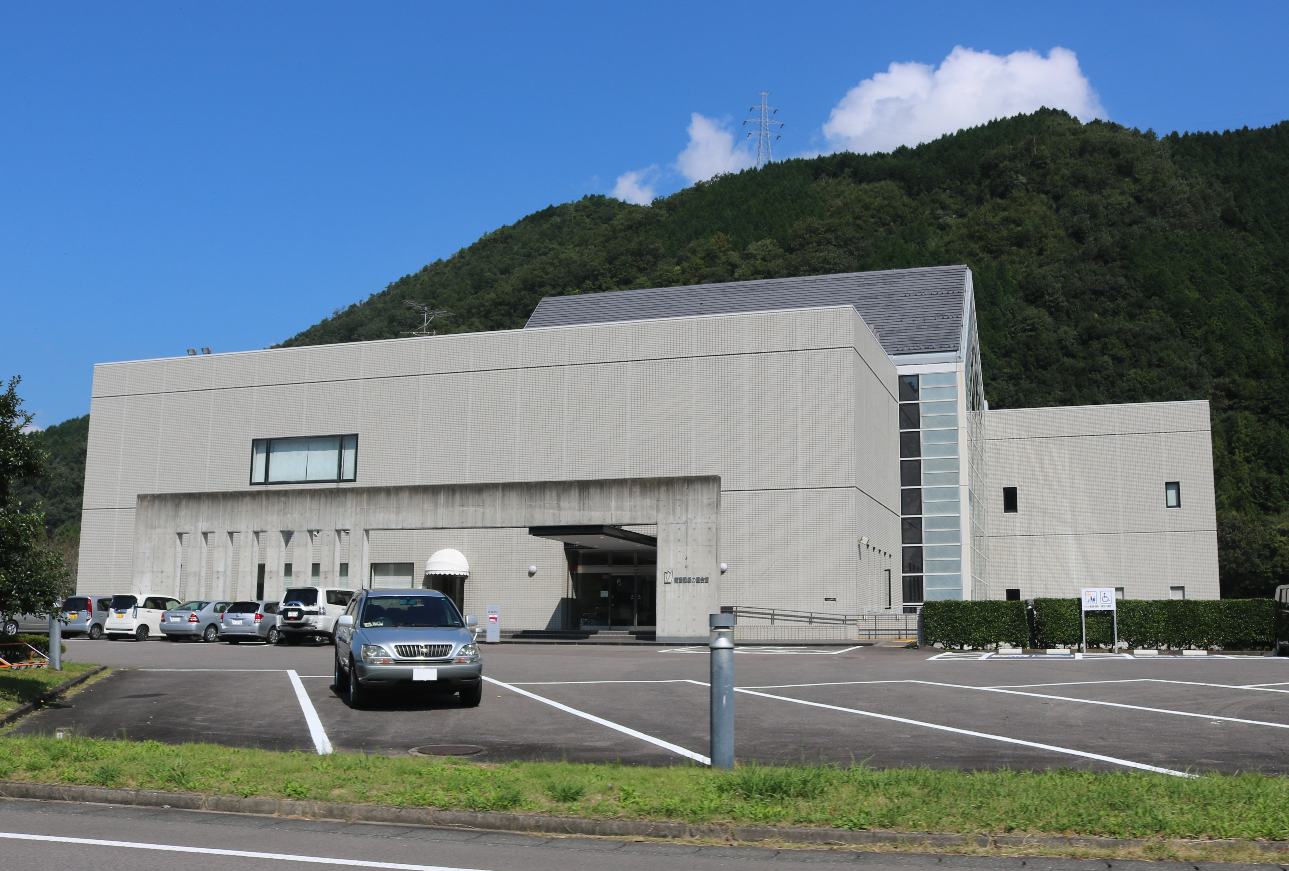 MINO-WASHI Museum in Mino, Gifu Prefecture, Japan.